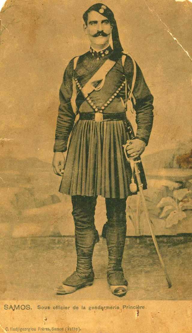 Officer of the Samian Gendarmerie